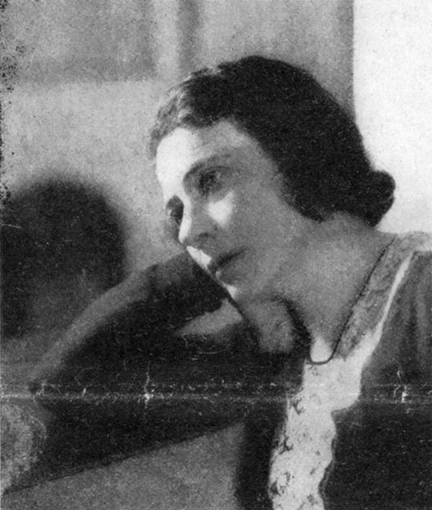 Sarah Millin (1889–1968) was a South African-born writer.